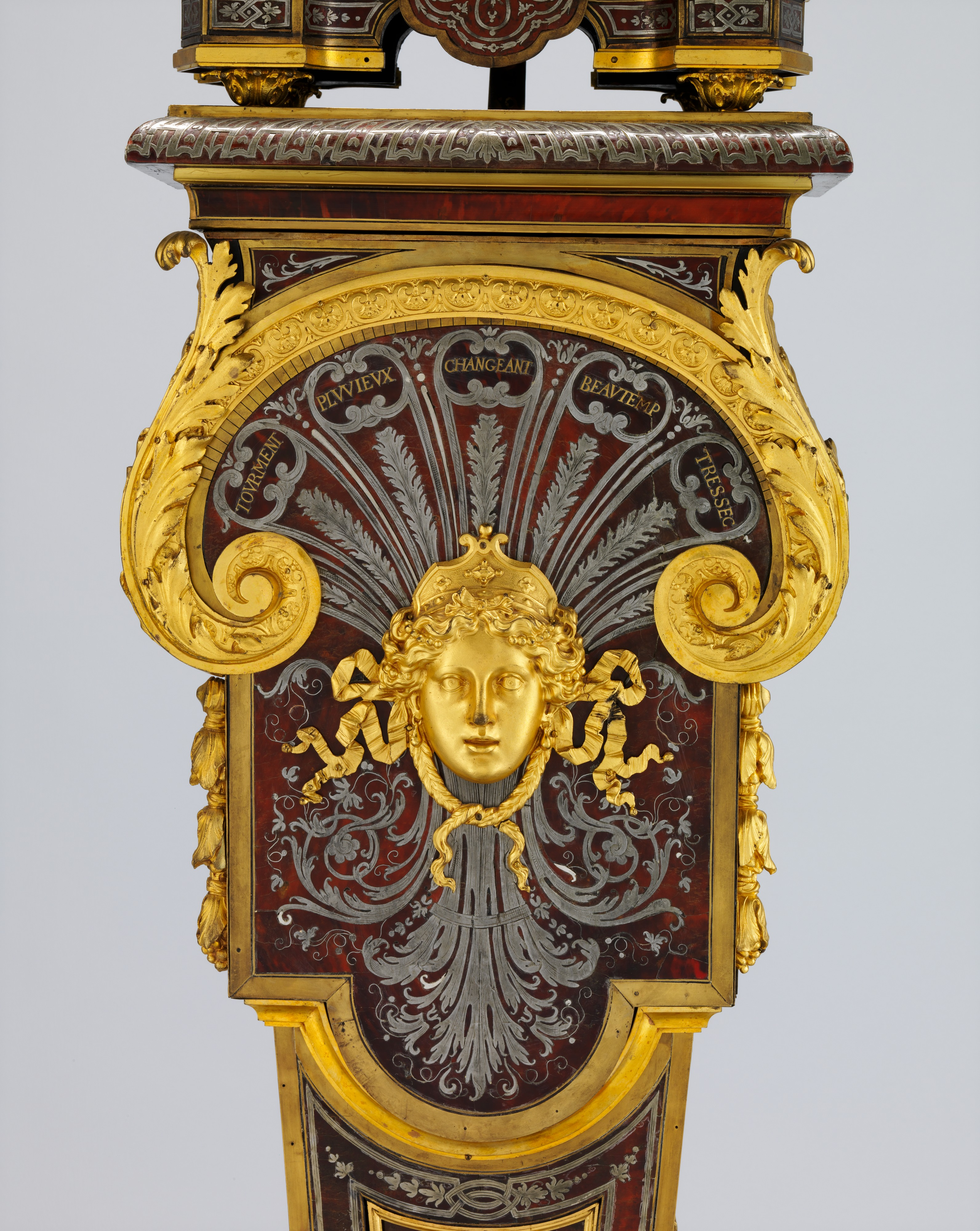 French, Paris; Clock with pedestal; Horology